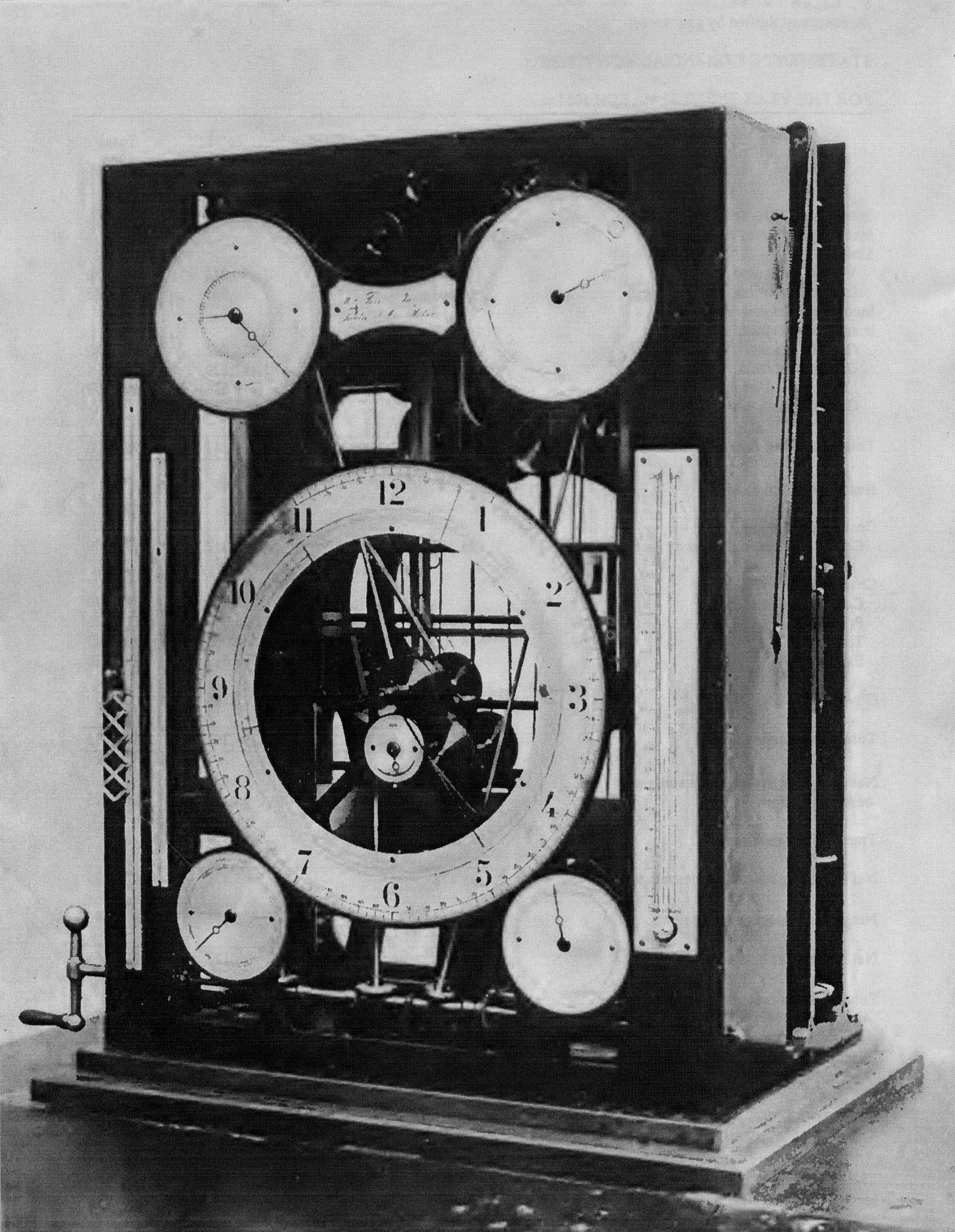 Scanned by uploader from a copy of: US Department of Commerce, Special Publication No.32 (1915), "Description of the US Coast and Geodetic Survey Tide-Predicting Machine No.2". This is non-copyright work: (a) it is too old for copyright, (b) a non-copyright publication of US Government.